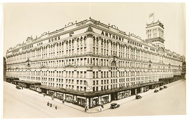 Note: "Everything from a hairpin to a harrow" trumpeted the advertisements and they were right. With 52 acres (21 hectares) of retail space, Anthony Horderns was once the largest department store in the world. Format: Photoprint Find out more about this photograph: .au/item/itemDetailPaged.aspx?itemID=145892 Search for more great images in the State Library's collections: .au/search/SimpleSearch.aspx From the collection of the State Library of New South Wales